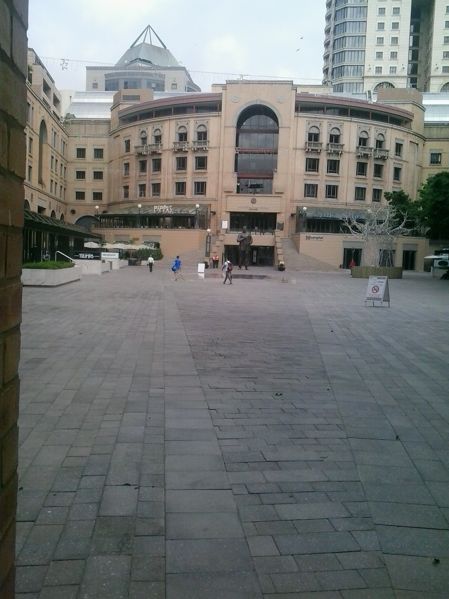 A photograph taken of Nelson Mandela Square, Sandton, South Africa in December 2015.